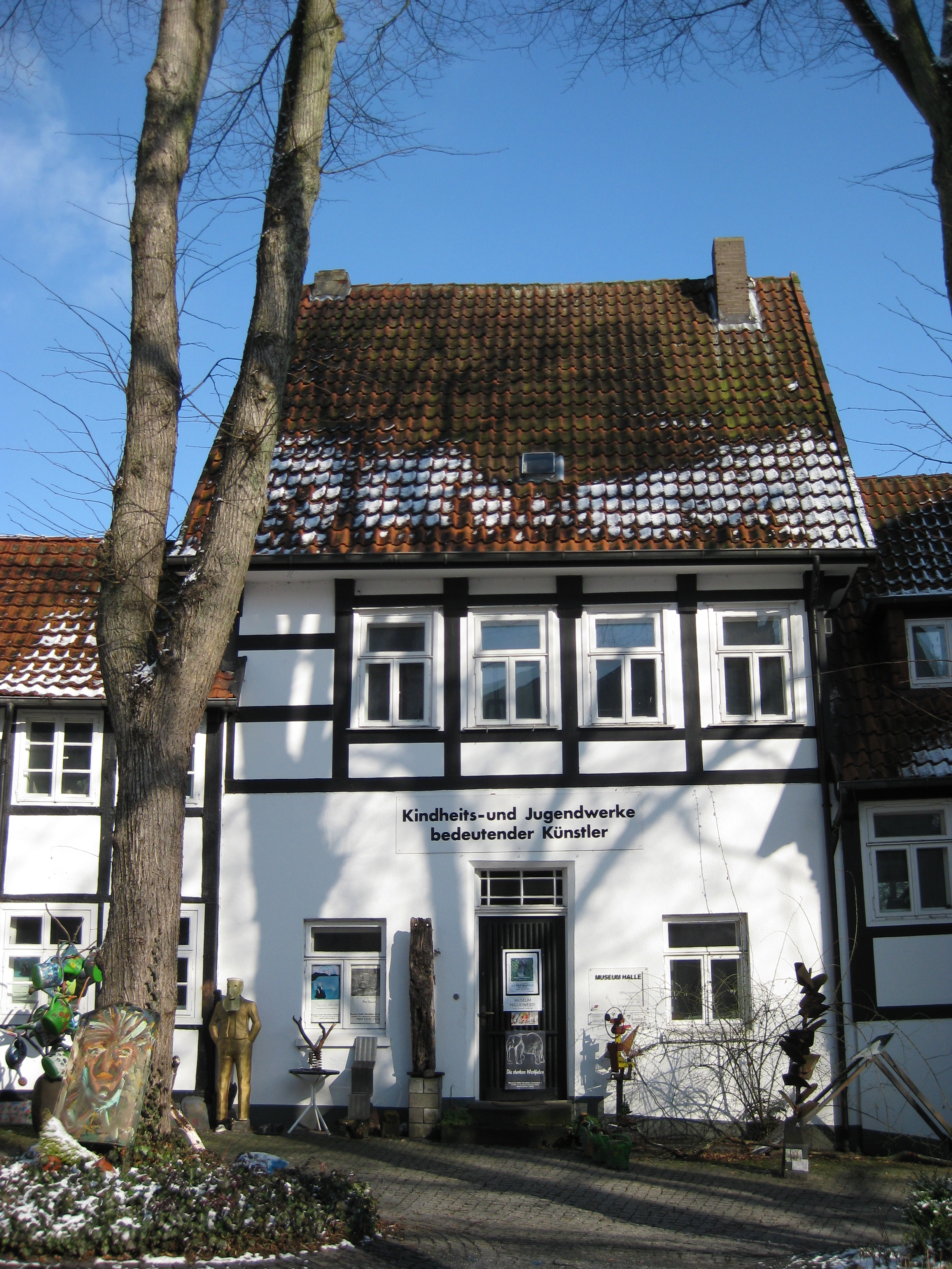 Museum for childhood and adolescence works of eminent artists in Halle (Westfalen)